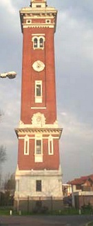 Torre Ader (tower) — at Villa Adelina, Buenos Aires, Argentina. --Fedejr7wc 22:50, 10 December 2005 (UTC)